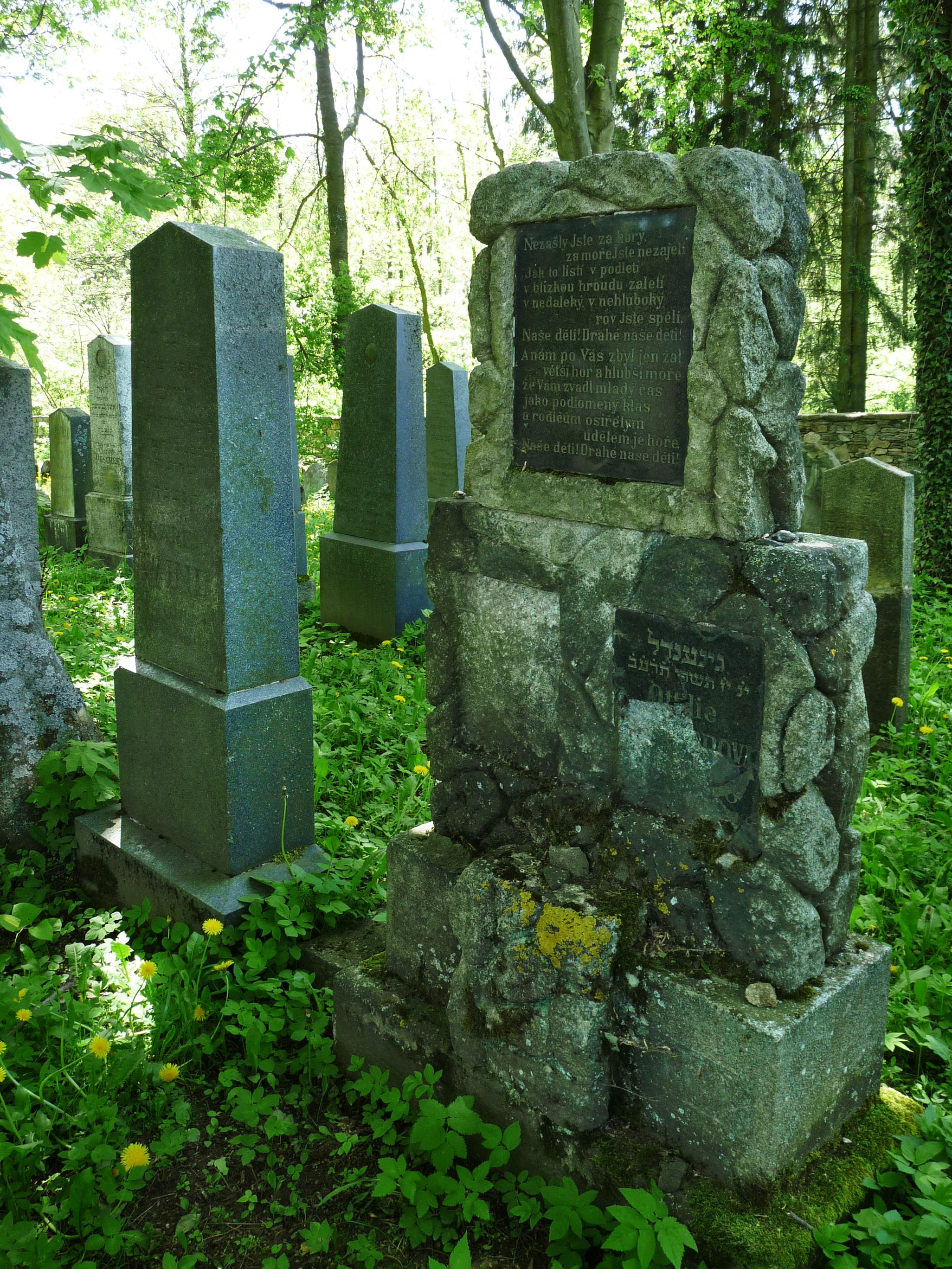 Gravestones in the Jewish cemetery in the town of Černovice, Pelhřimov District, Vysočina Region, Czech Republic.